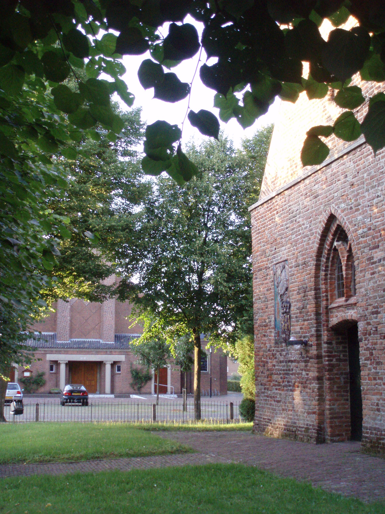 Catholic and Protestant Churches of Heumen, Netherlands. The protestant church is rijksmonument.